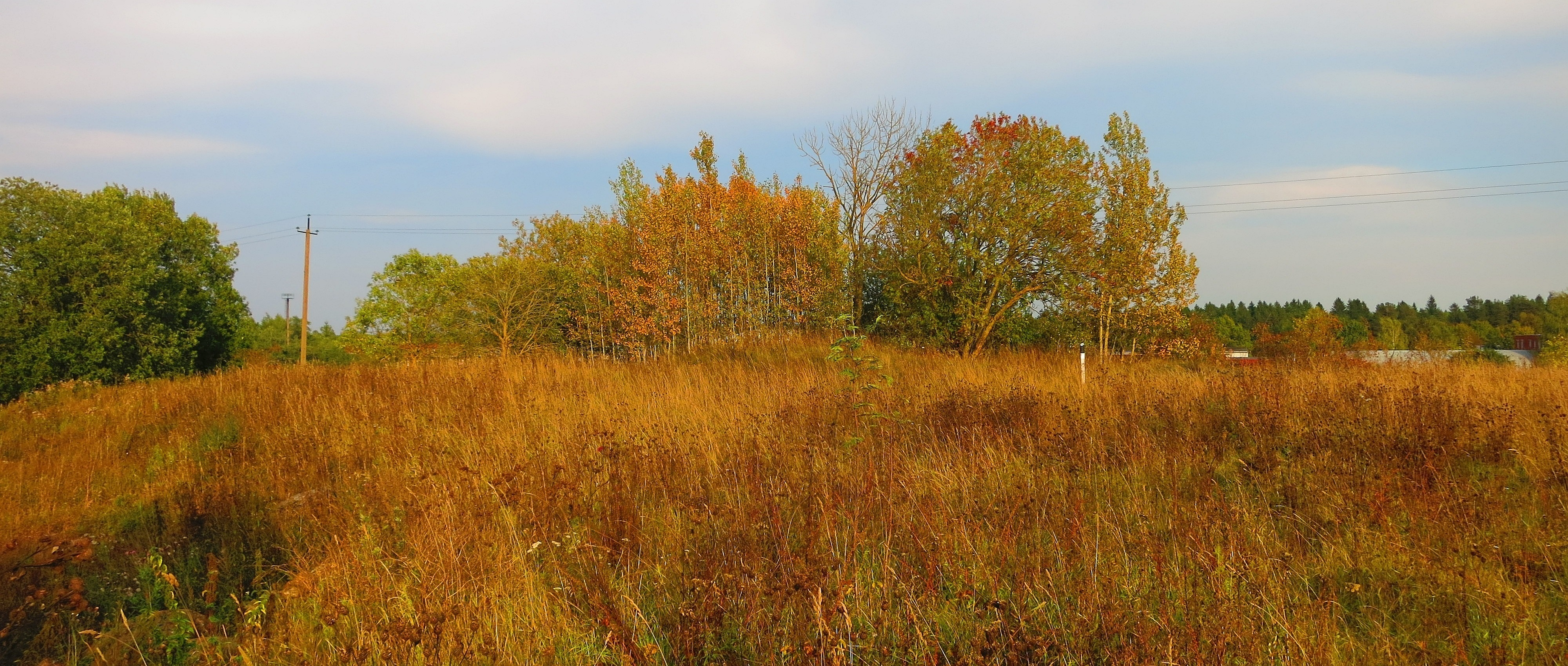 Stone grave in Voka, view from west